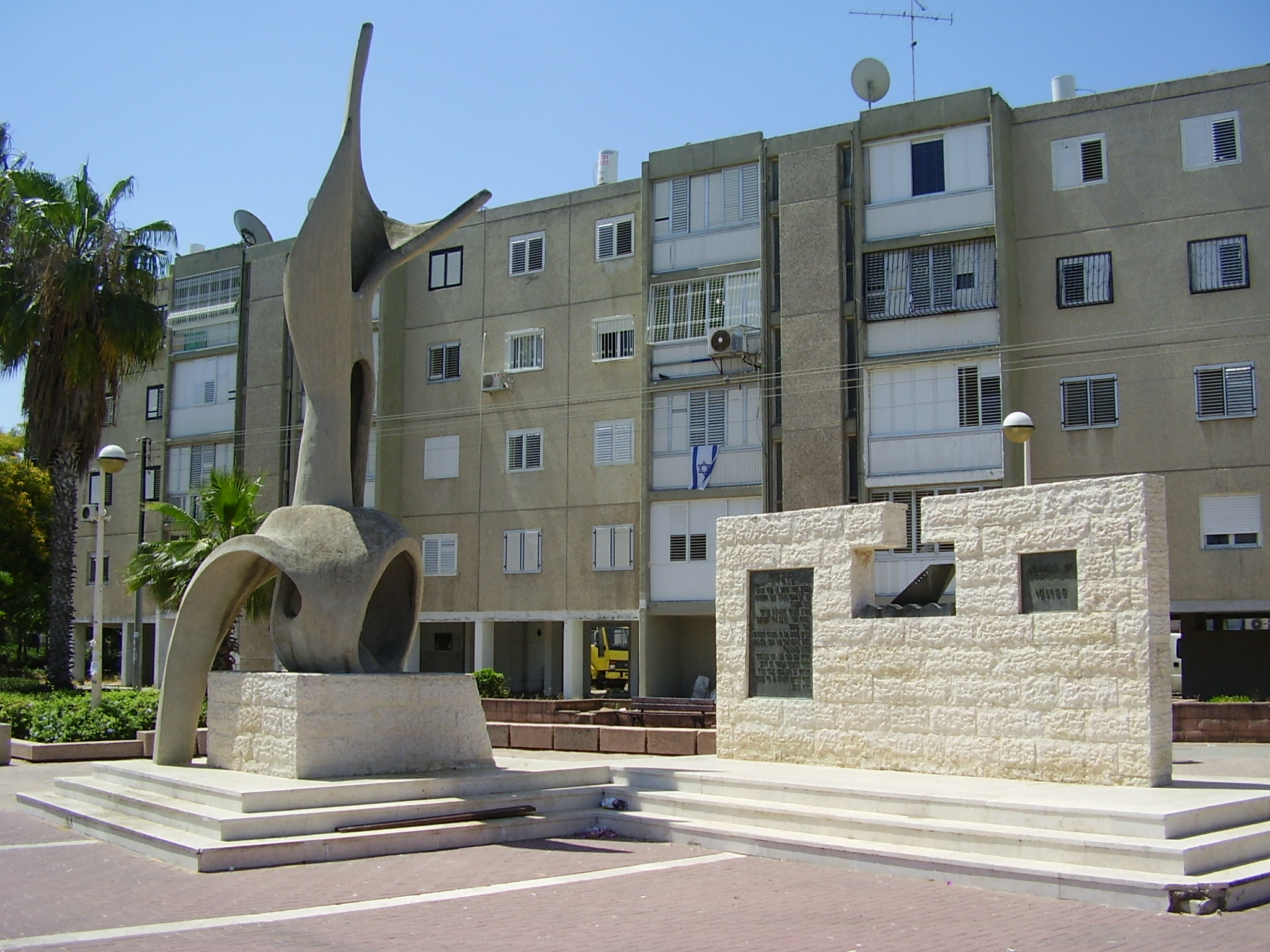 monumement of the immigrants ship EGOZ in Ashdod, Israel